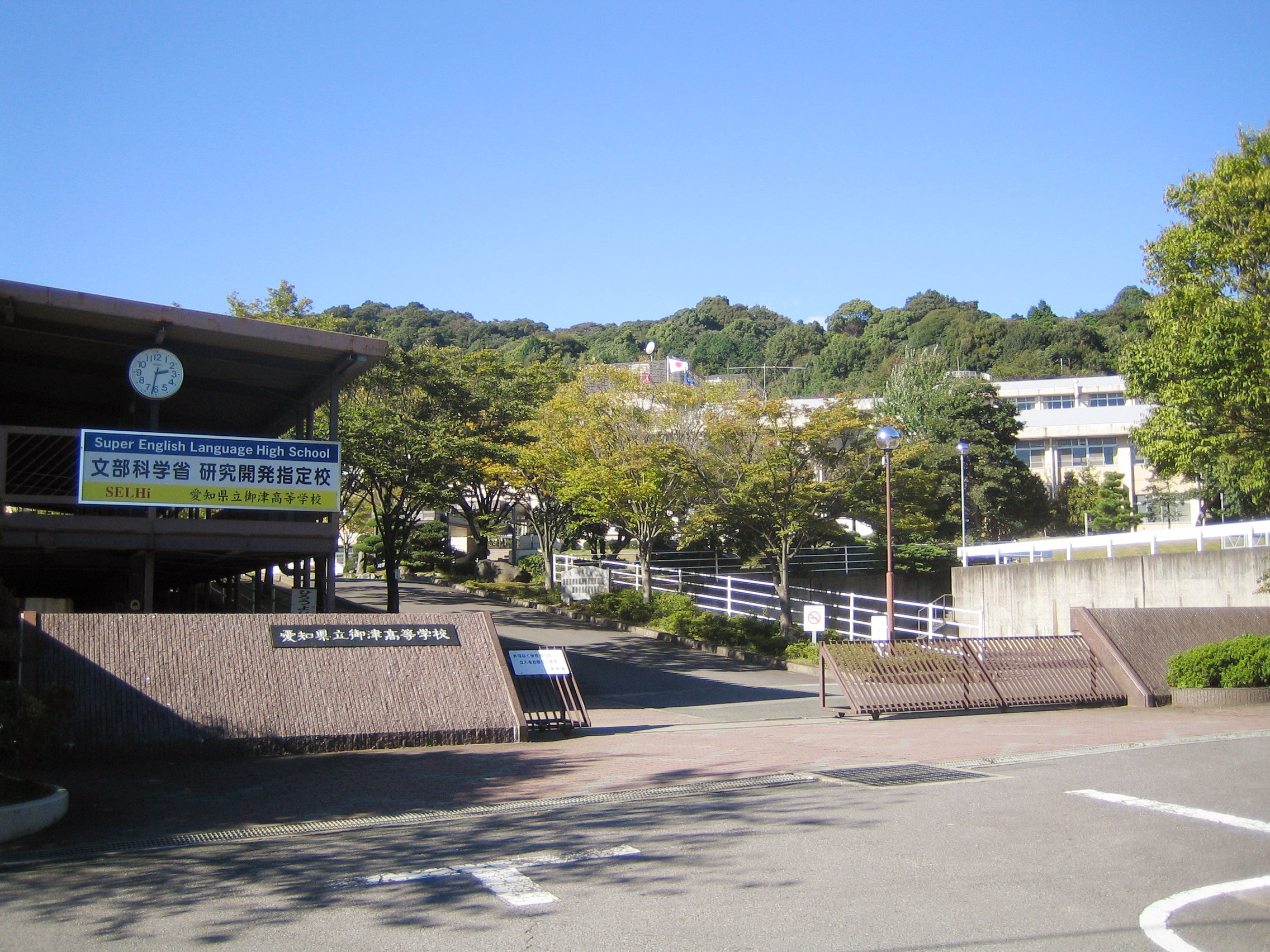 Mito High School (御津高等学校), in Mito, Aichi, Japan